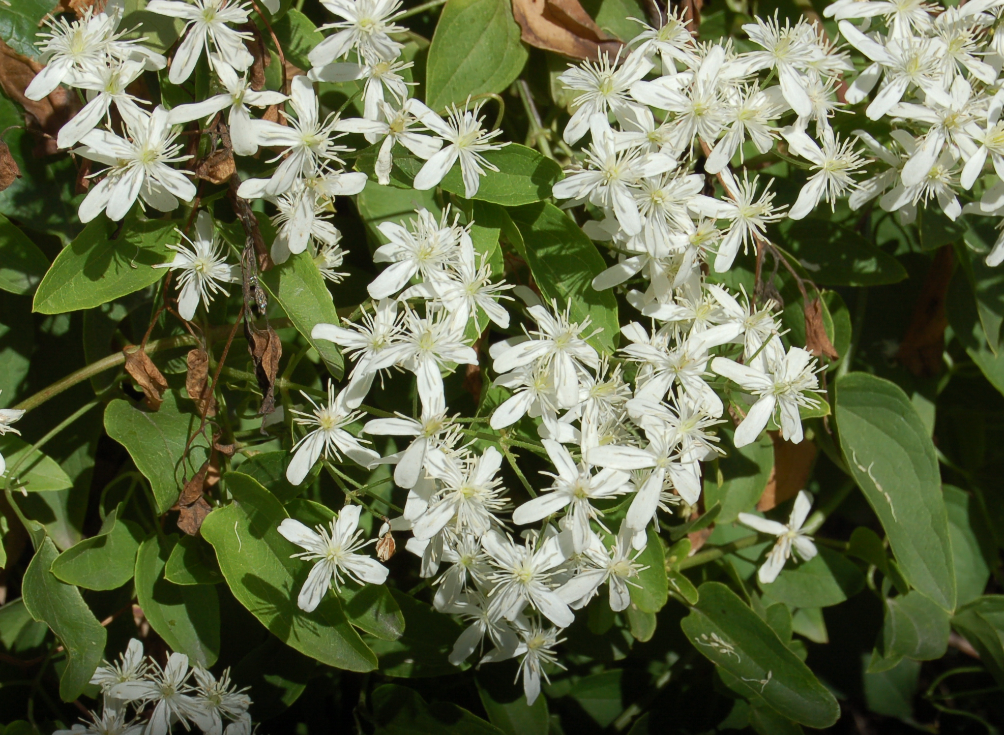 Sweet Autumn Clematis (Clematis terniflora)